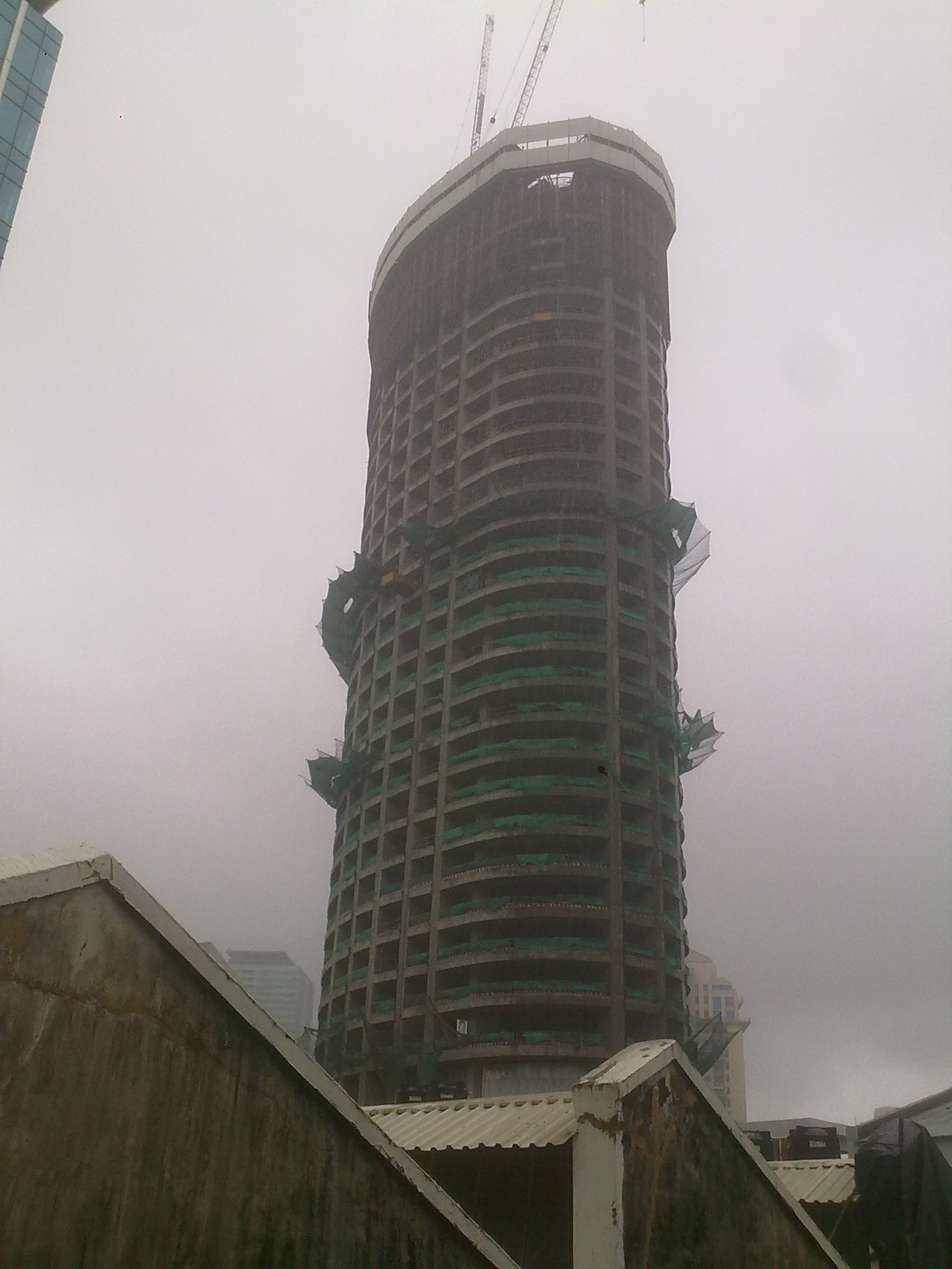 World One tower under construction